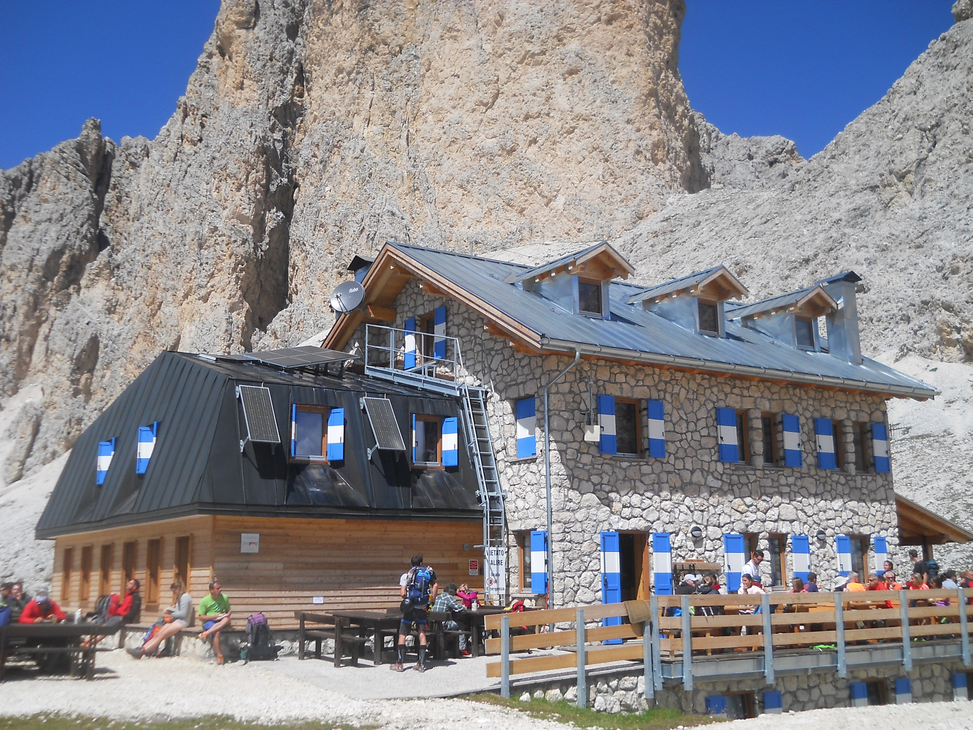 Antermoia refuge